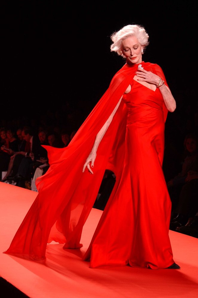 Model Carmen Dell'Orefice in the 2005 Red Dress Collection for The Heart Truth